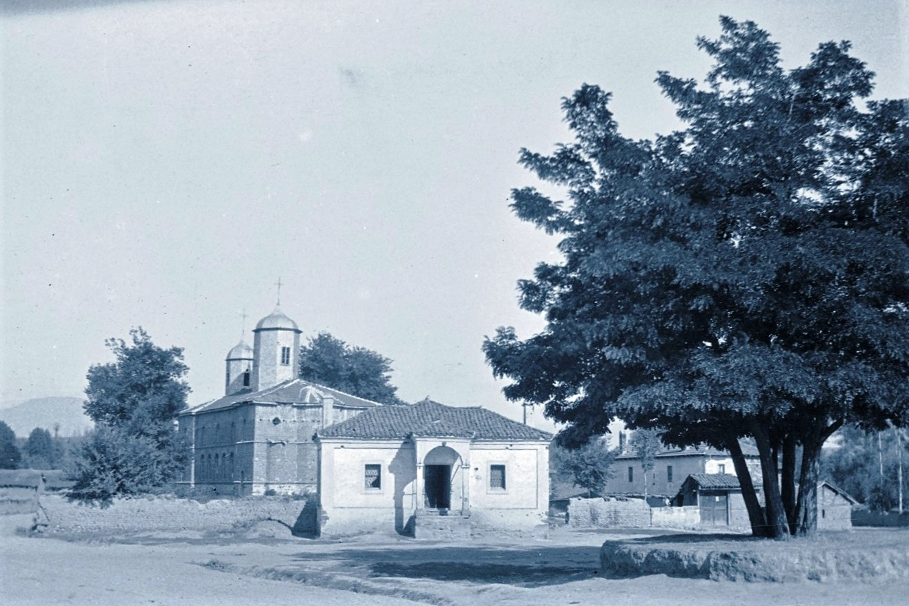 Popozani 1916